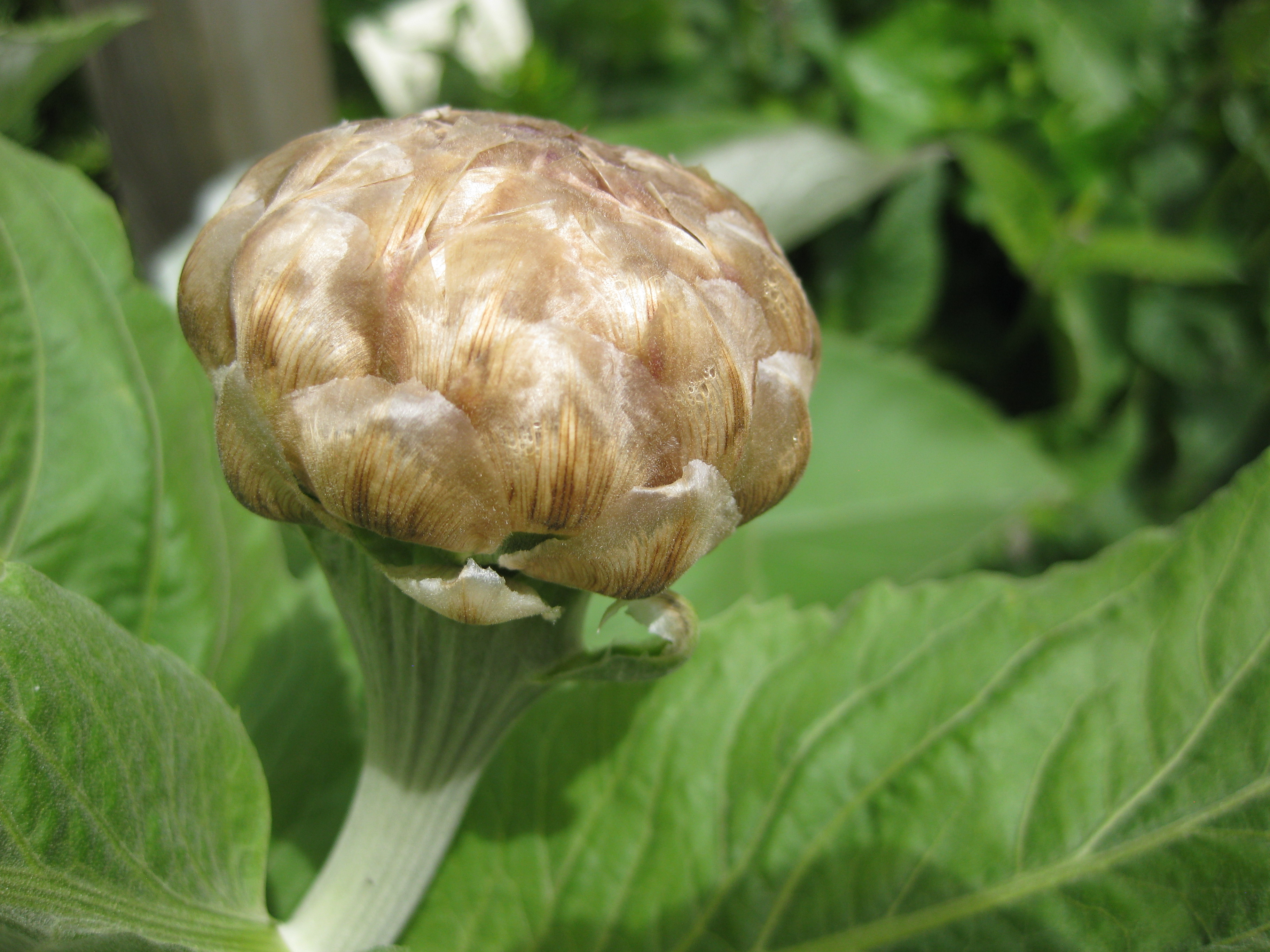 Rhaponticum heleniifolium in the Jardin Botanique Alpin du Lautaret